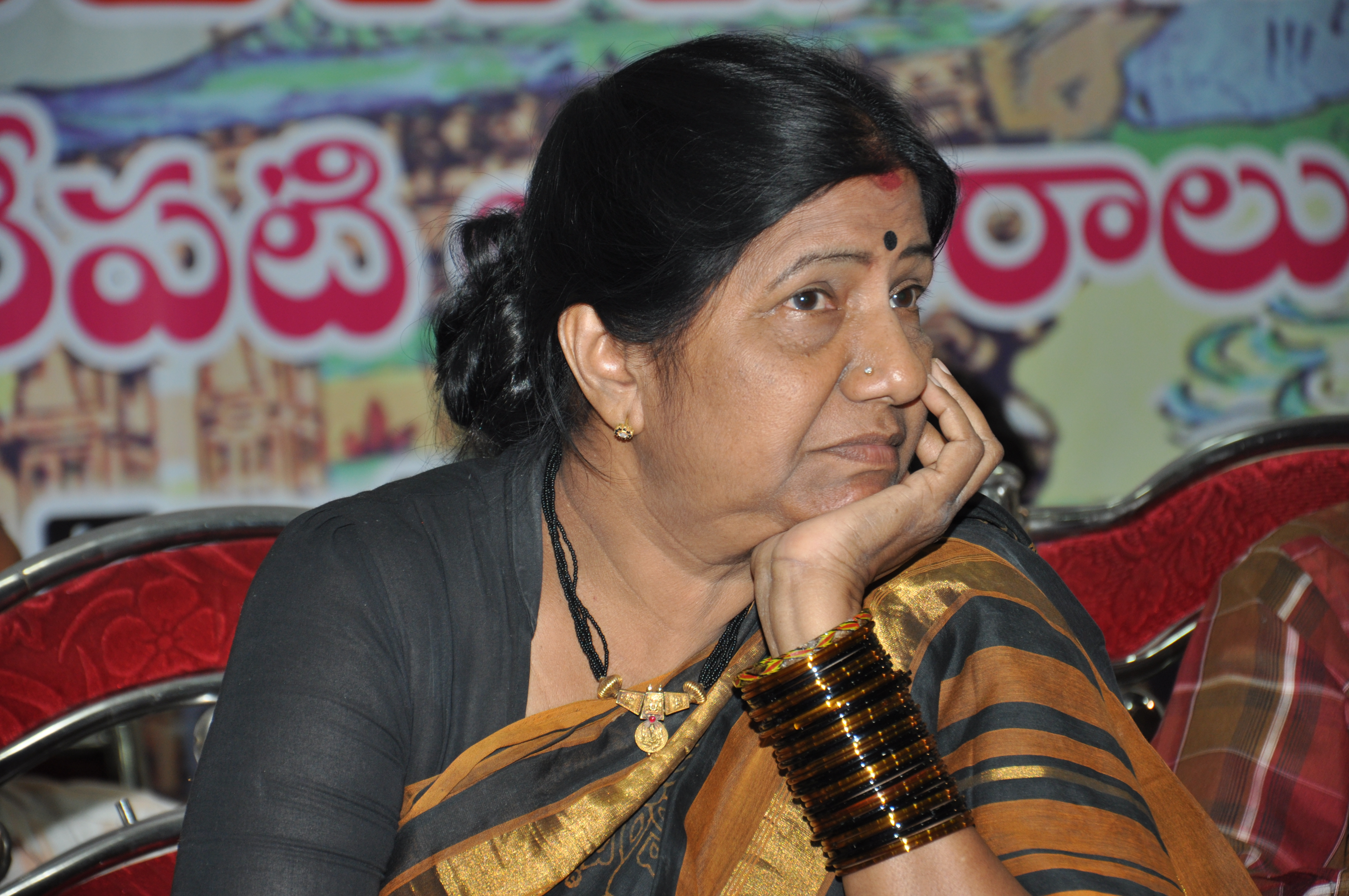 Nannapaneni Rajakumari in 2nd world telugu writers' conference